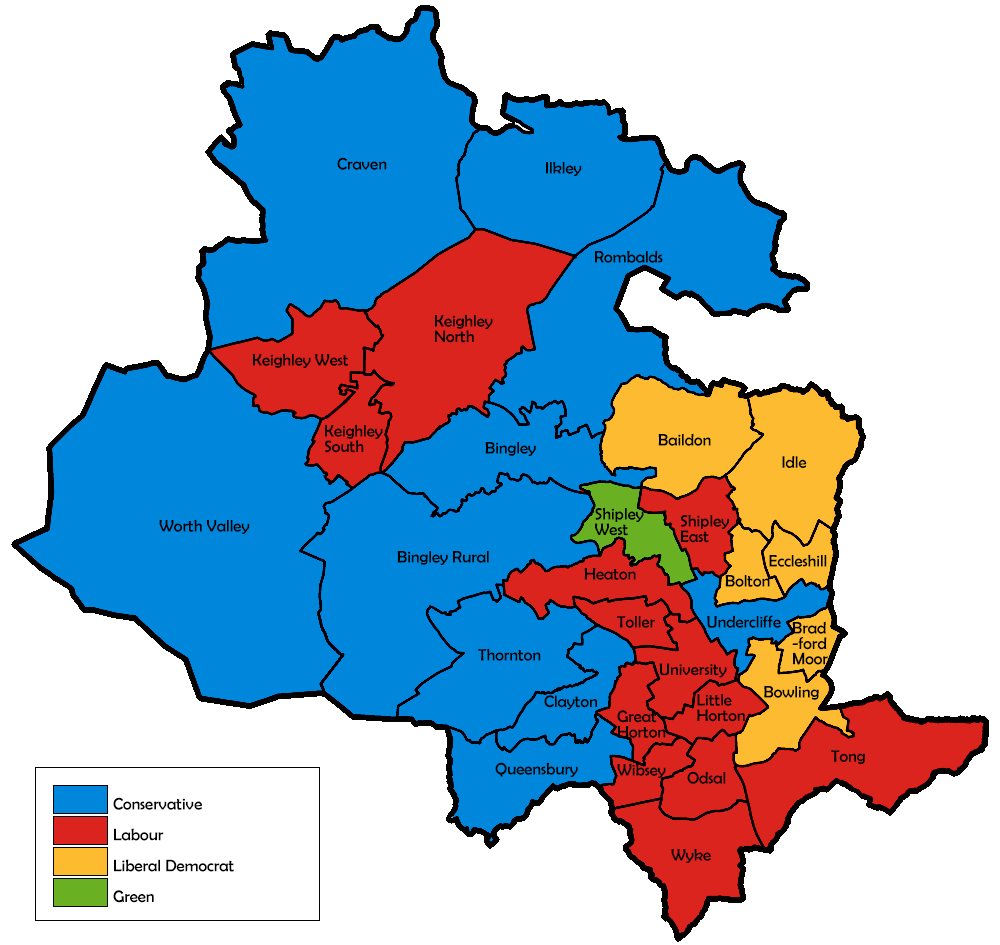 Ward map of Bradford Council with political colouring for the 2003 local election.